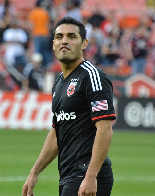 Fabian Espindola of DC United